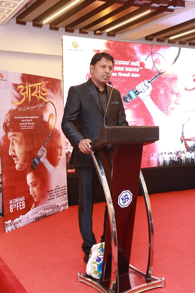 Portrait Picture of Nilesh Jalamkar, Director in Marathi Film Industry